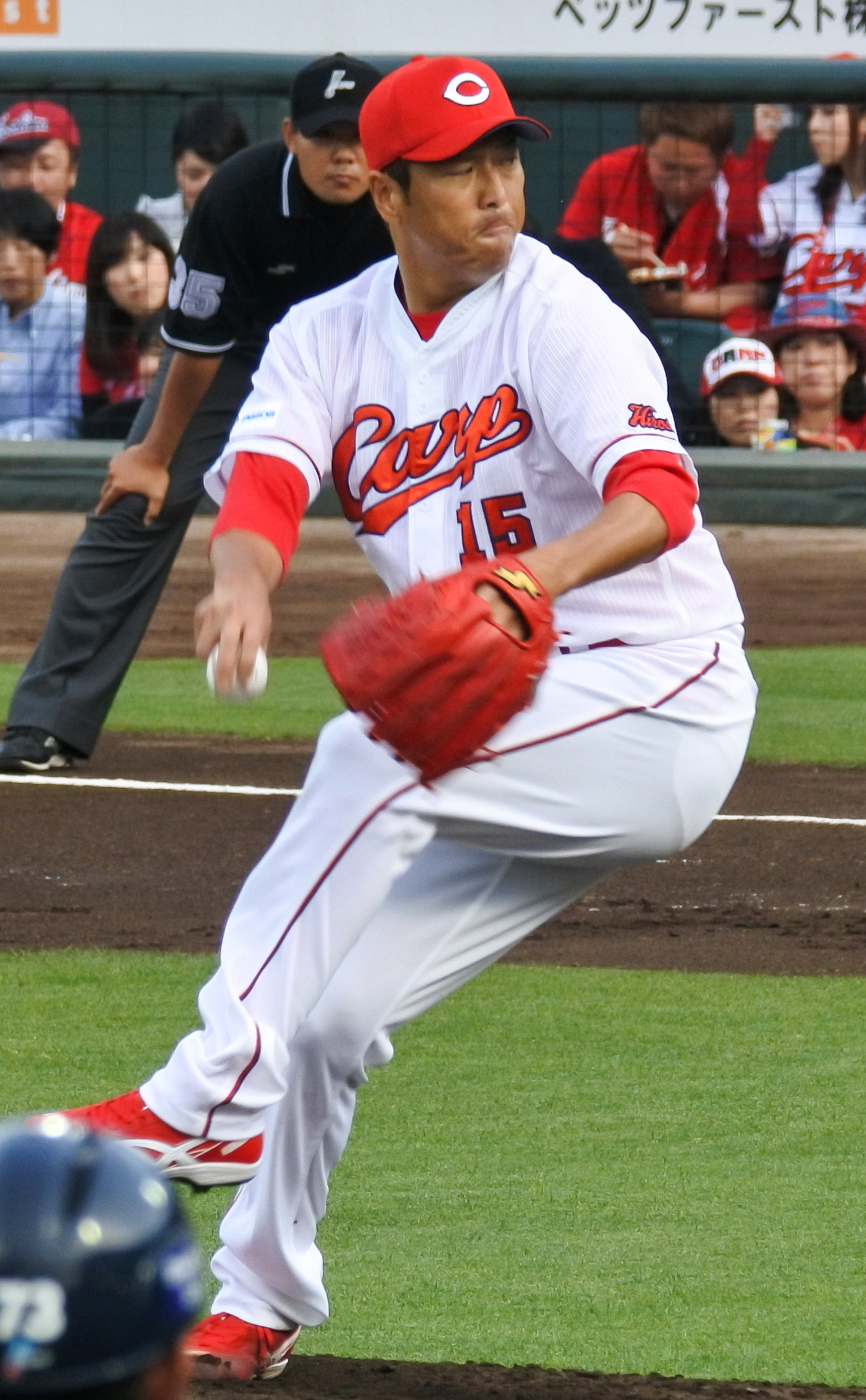 Hiroki Kuroda, pitcher of the Hiroshima Toyo Carp, at MAZDA Zoom-Zoom Stadium Hiroshima.